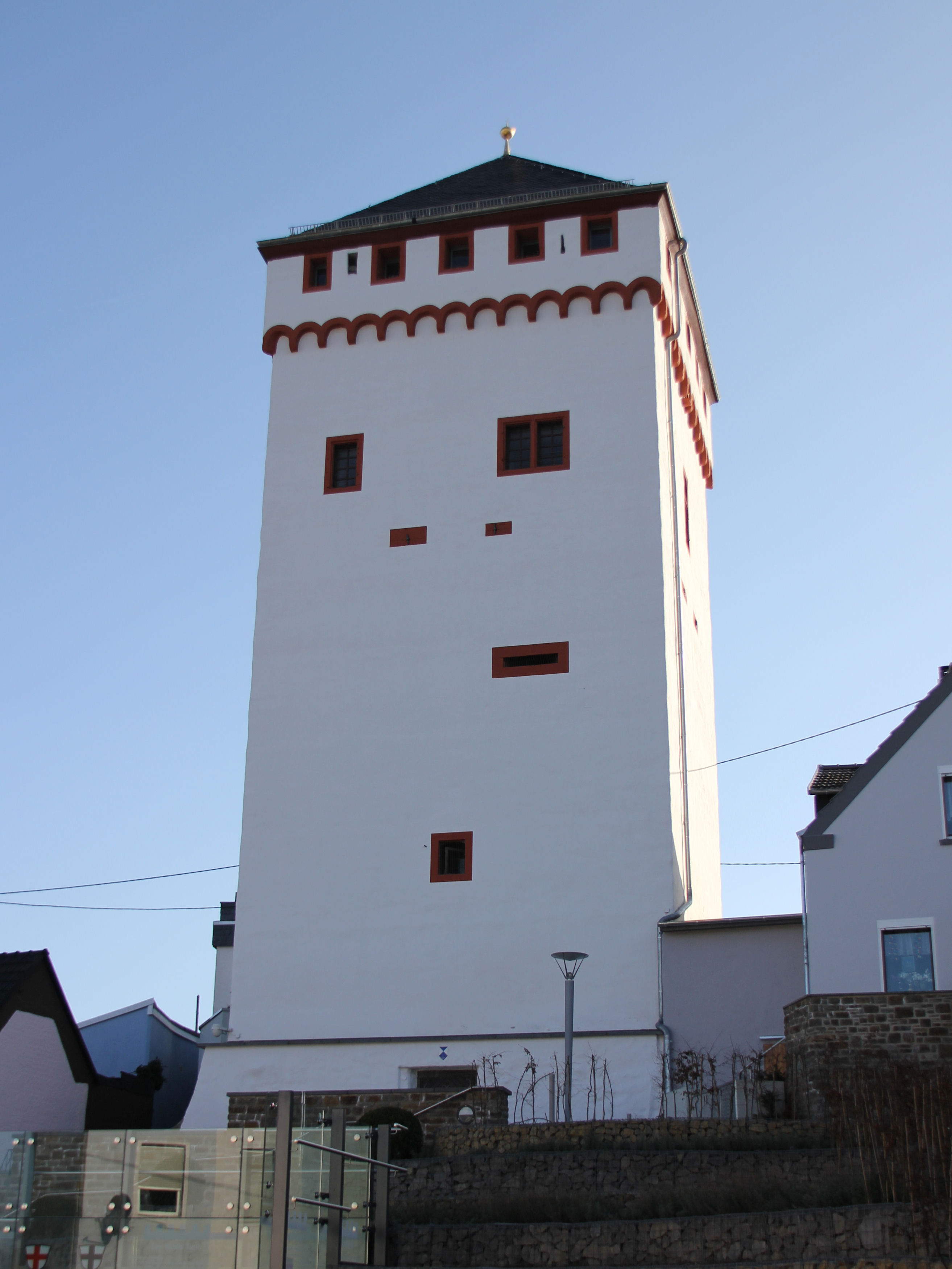 White Tower in Weißenthurm